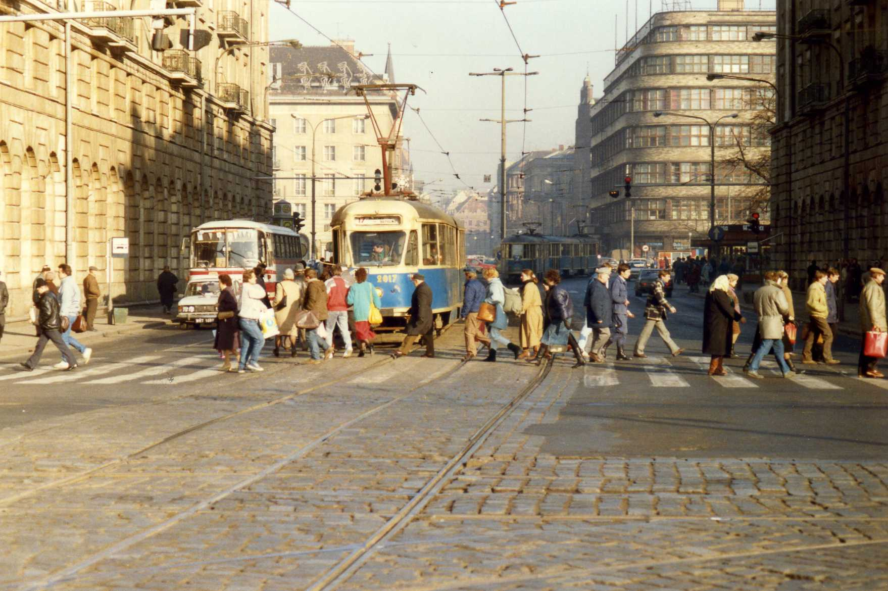 A Konstal 102Na tram no 2017 operating on the 17 route, with a german modernist department store , formerly Wertheim, now Centrum in the background as well a pair of 102Na trams on route 7. A beautifully sunny and crisp day. Possibly 15th November 1989 The department store was designed by Hermann Dernburg and built in 1929- 30. tram nr 2017 , built in 1971, was scrapped only in 2009.